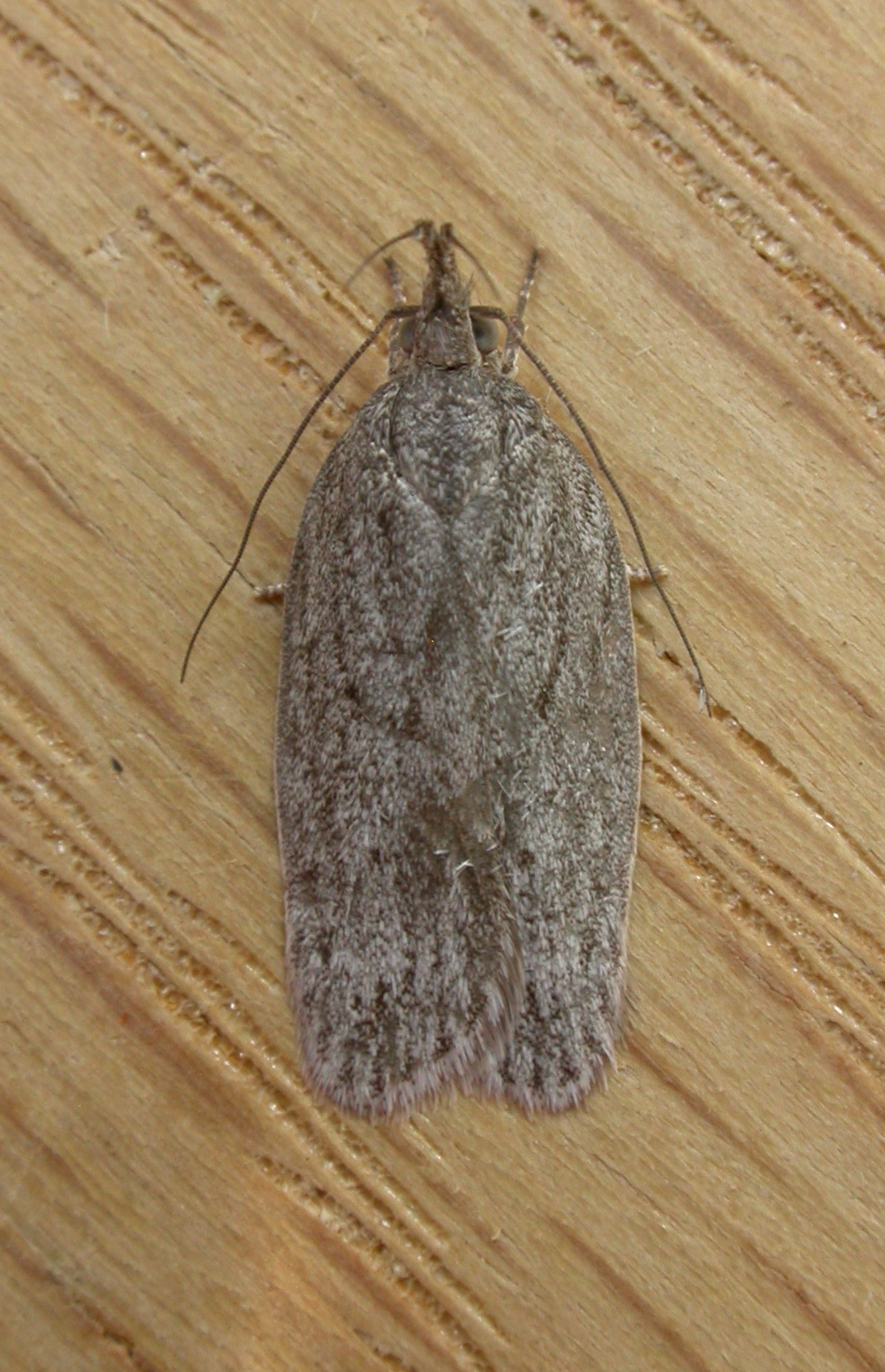 Pedois lewinella (Newman, 1856), to MV light, Blackheath, NSW, 15/16 January 2009